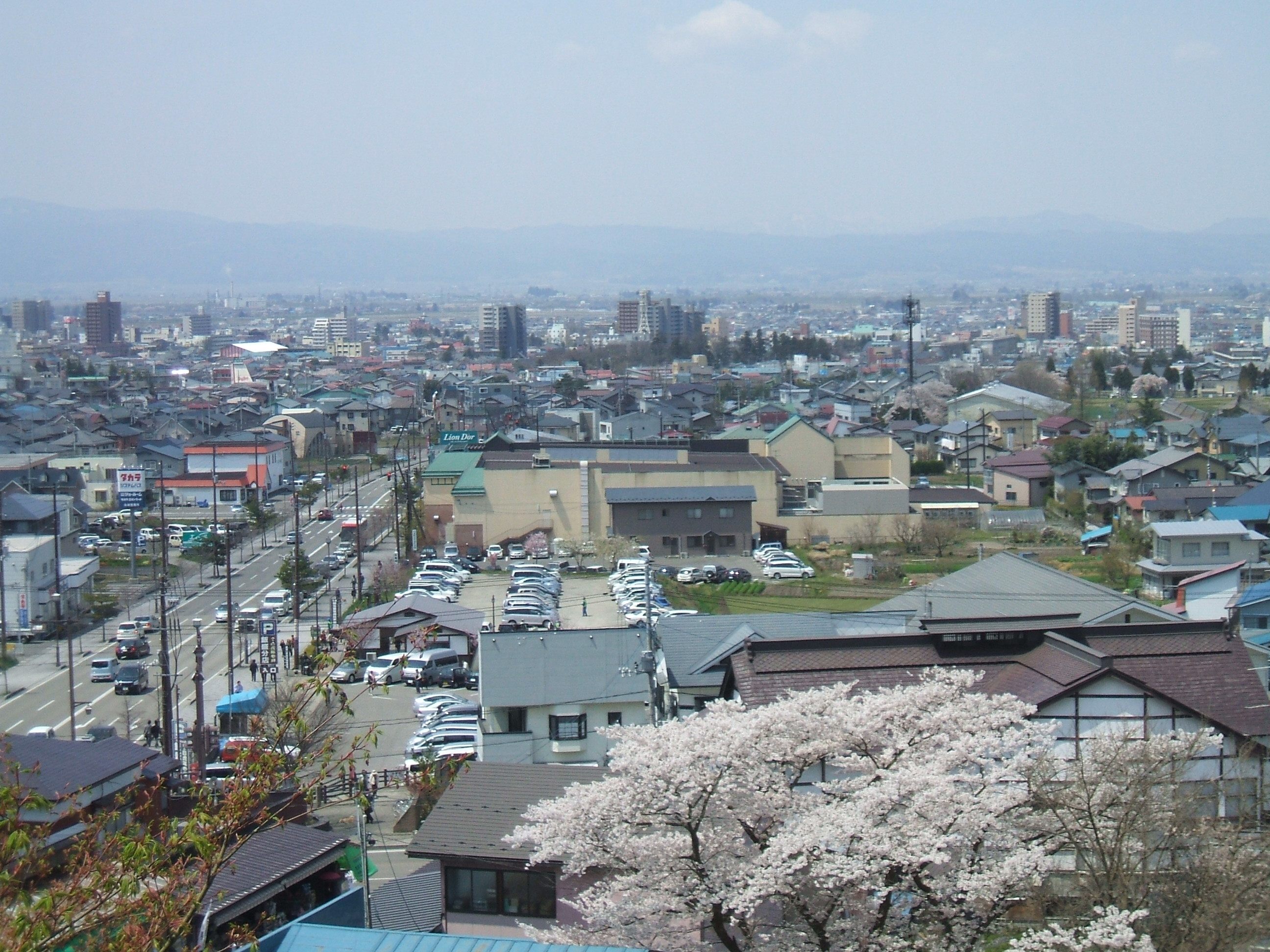 View of Aizuwakamatsu City's Downtown from Mt.Imoriyama.